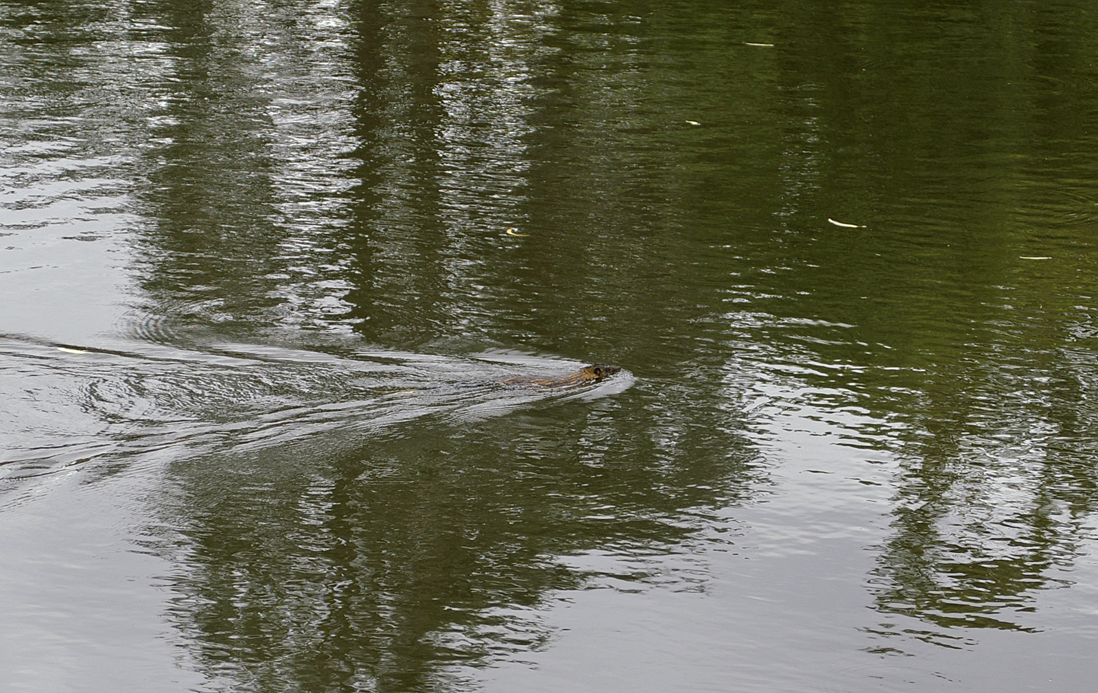 Hydromys chrysogaster (Known as a Rakali or Water-rat) swimming in the Wollundry Lagoon in Wagga Wagga, New South Wales, Australia